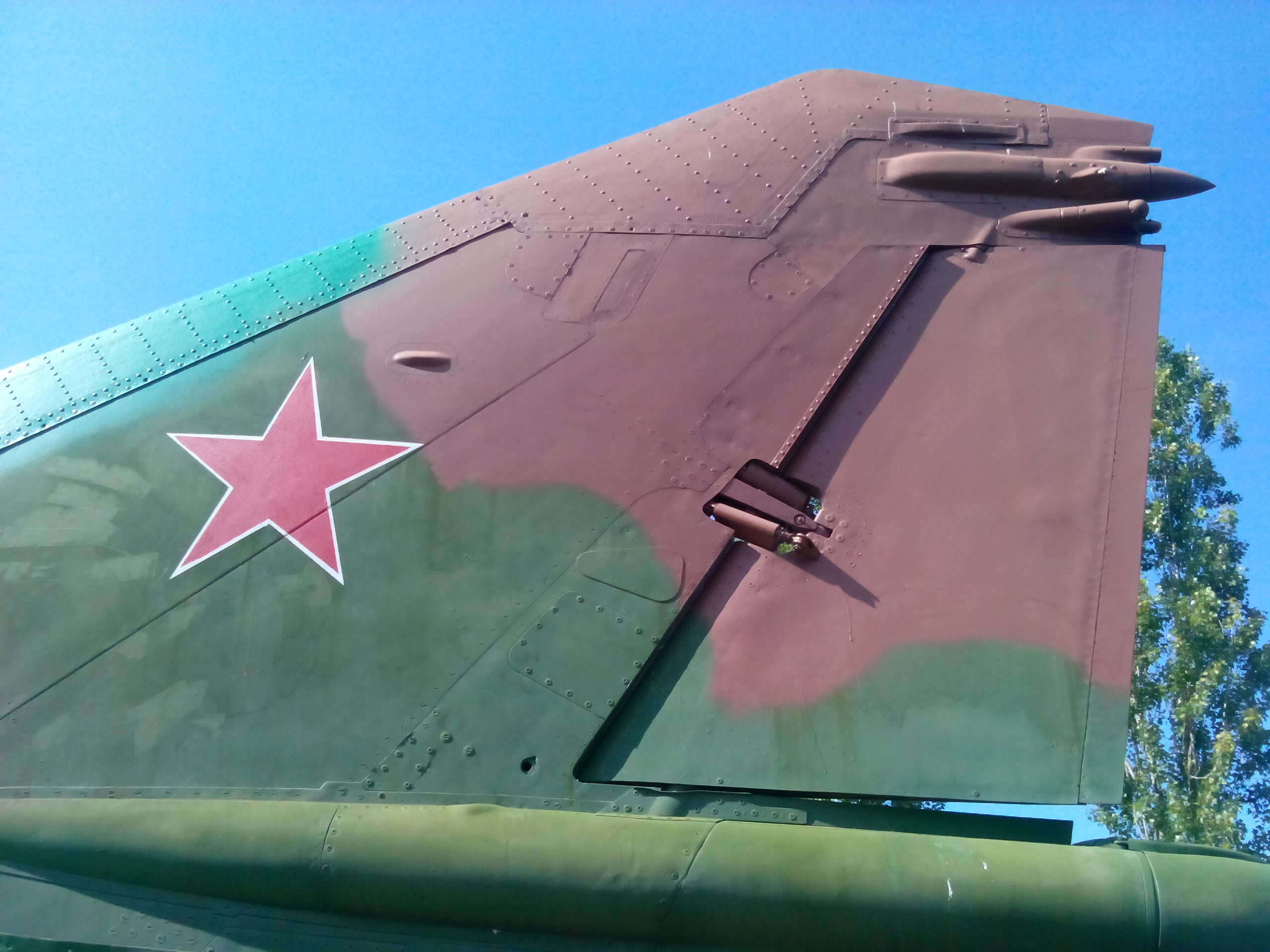 The rudder of the MiG-27. Victory Park In Nizhniy Novgorod